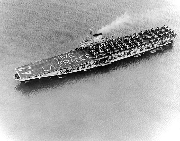 The U.S. Navy aircraft carrier USS Franklin D. Roosevelt (CVB-42) off Nice, France, on 24 October 1951, with crewmen in formation on the flight deck spelling out "Vive La France". Franklin D. Roosevelt, with assigned Carrier Air Group 6 (CVG-6), was deployed to the Mediterranean Sea from 3 September 1951 to 4 February 1952.